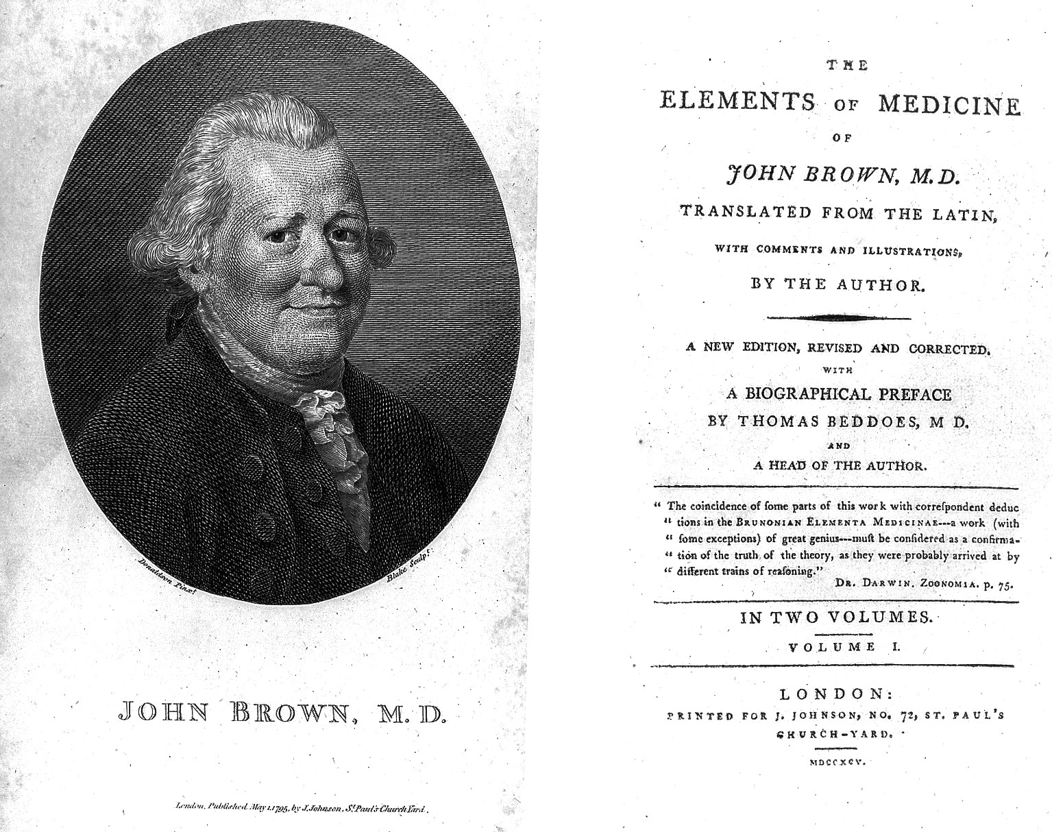 Portrait and title-page of John Brown Rare Books Keywords: John Brown